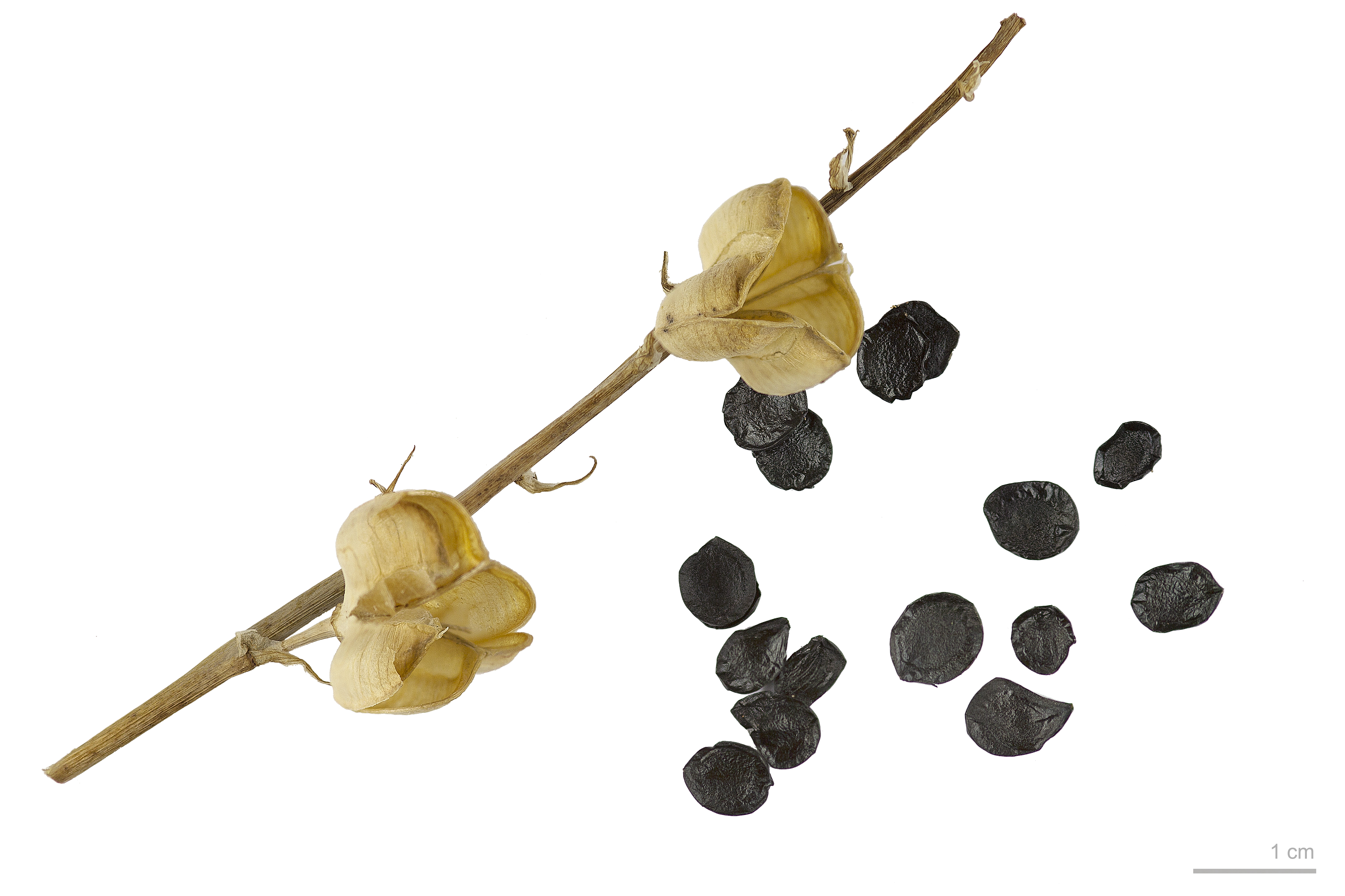 Dipcadi serotinum , fruits and seeds